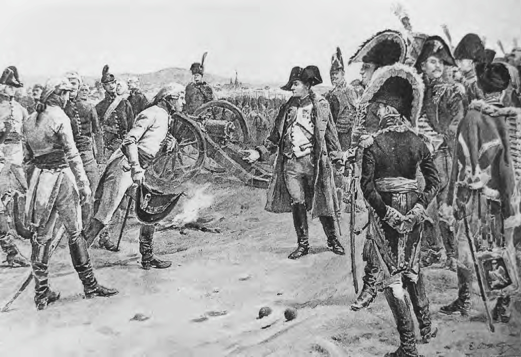 General Mack surrenders his army at Ulm, 20 October 1805. Napoleon’s strategic encirclement of the Austrians, in conjunction with the Battle of Austerlitz six weeks later, sealed the fate of the Third Coalition.